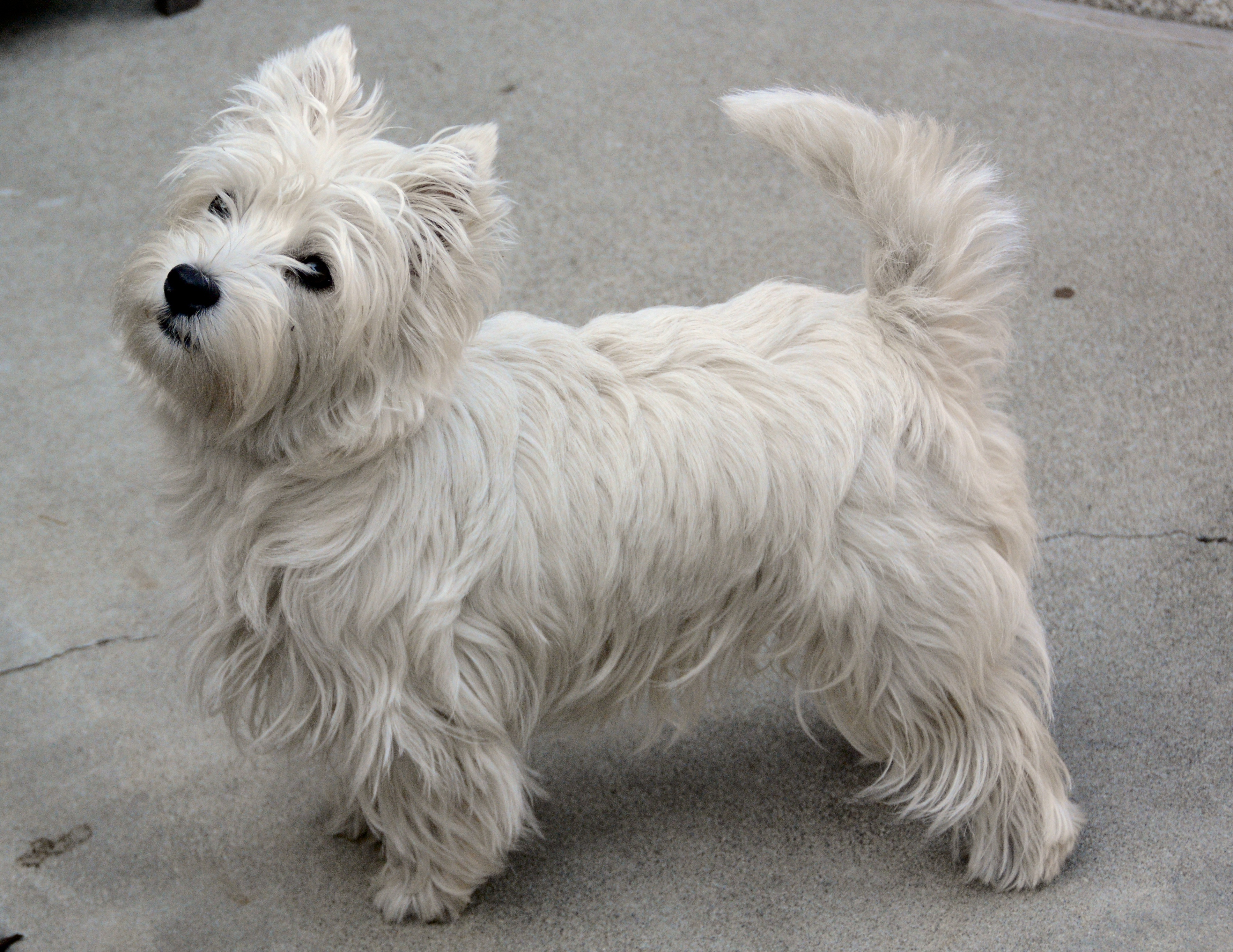 West Highland White Terrier "Westie"